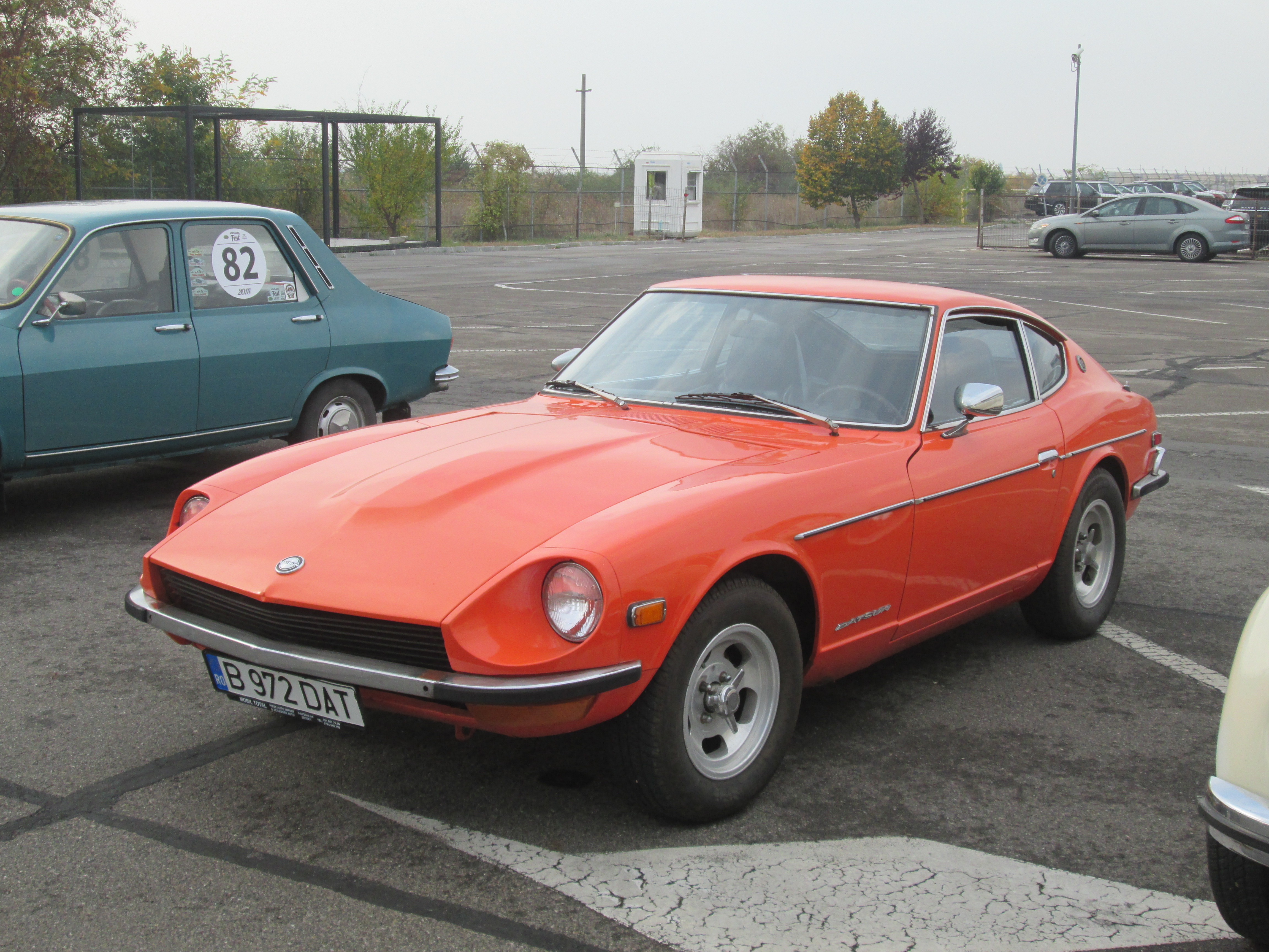 1972 Datsun 240Z at the Autumn Retroparade 2018, Bucharest